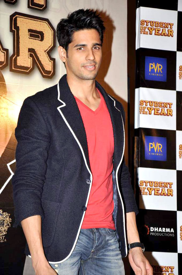 Siddharth Malhotra at the promo launch of 'Student Of The Year'